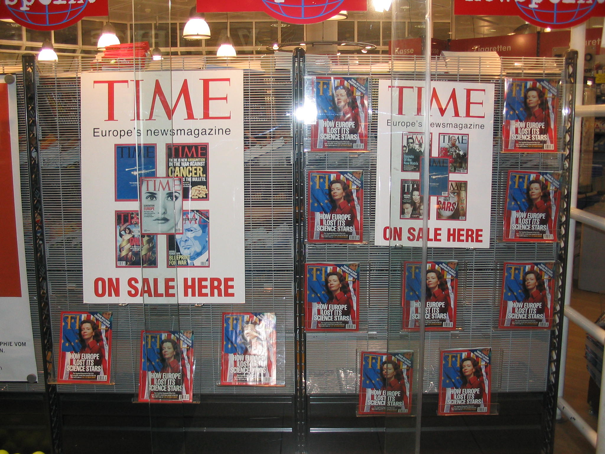 Shopwindow at Munich Airport with the Time magazine